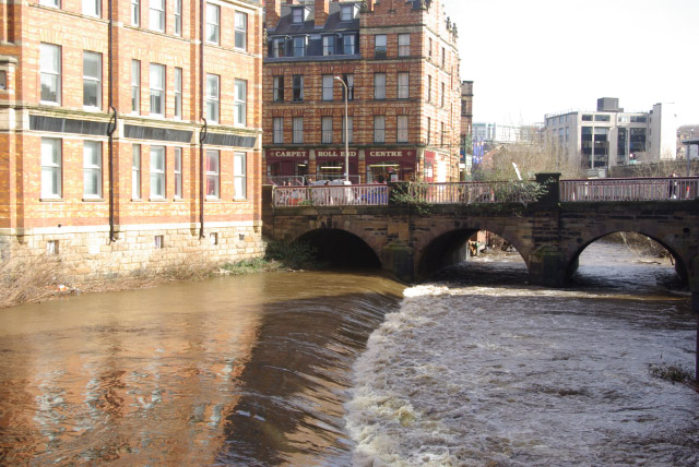 River Don, Sheffield